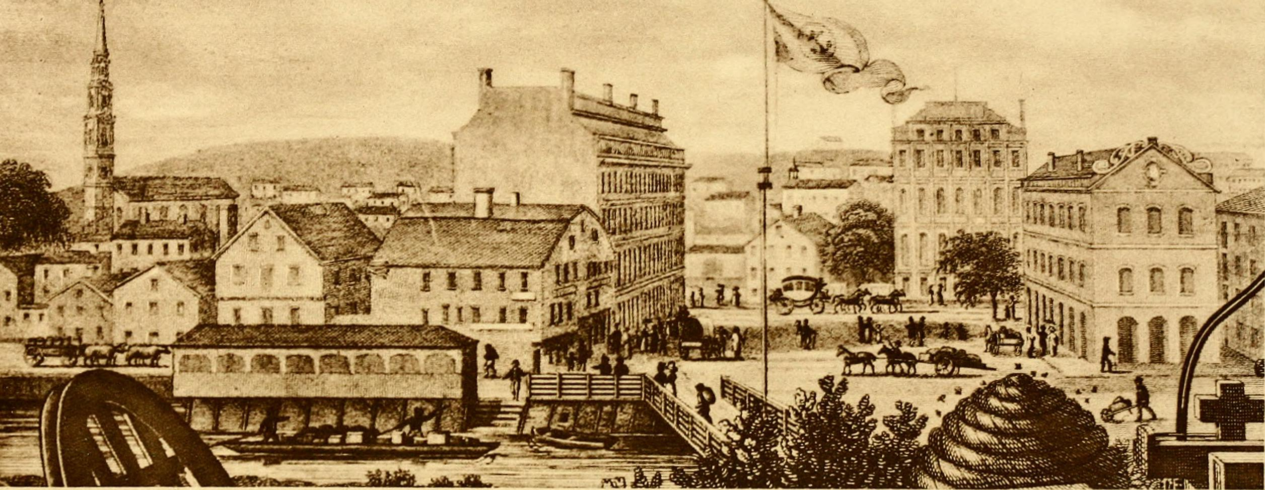 Title: Providence in colonial times Year: 1912 (1910s) Authors: Kimball, Gertrude Selwyn, 1863-1910 Subjects: Publisher: Boston & New York : Houghton Mifflin Text Appearing Before Image: . jt^-* M•v^i•V;^^.-. Text Appearing After Image: I——-^^m^i 0^ View of Market Square Showing the First Baptist Meeting-house on the left,the old Coffee House in the centre, and the old MarketHouse on the right. This is the earliest view of thesquare, and is taken from the diploma of the ProvidenceAssociation of Mechanics and Manufacturers. It wasdrawn about 1824. ^Hol 3x1) no J^uofl-s^b^^^^ izbq&H i^Jii i8£w jI .ai-jTuJoij^uanM bnti s^;finrfi^l/I PROVIDENCE IN Colonial Times By Gertrude Selwyn Kimball PFifb an introduction by J. Franklin Jameson, LL.D.ILLUSTRATEDprovidenceincolo00inkimb